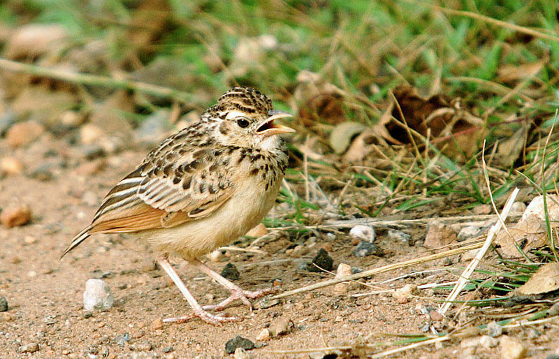 A juvenile Jerdon's bush lark photograph by Mohanram R Kemparaju near Bangalore, India in July 2006 Author: mohan.kemparaju AT gmail dot com